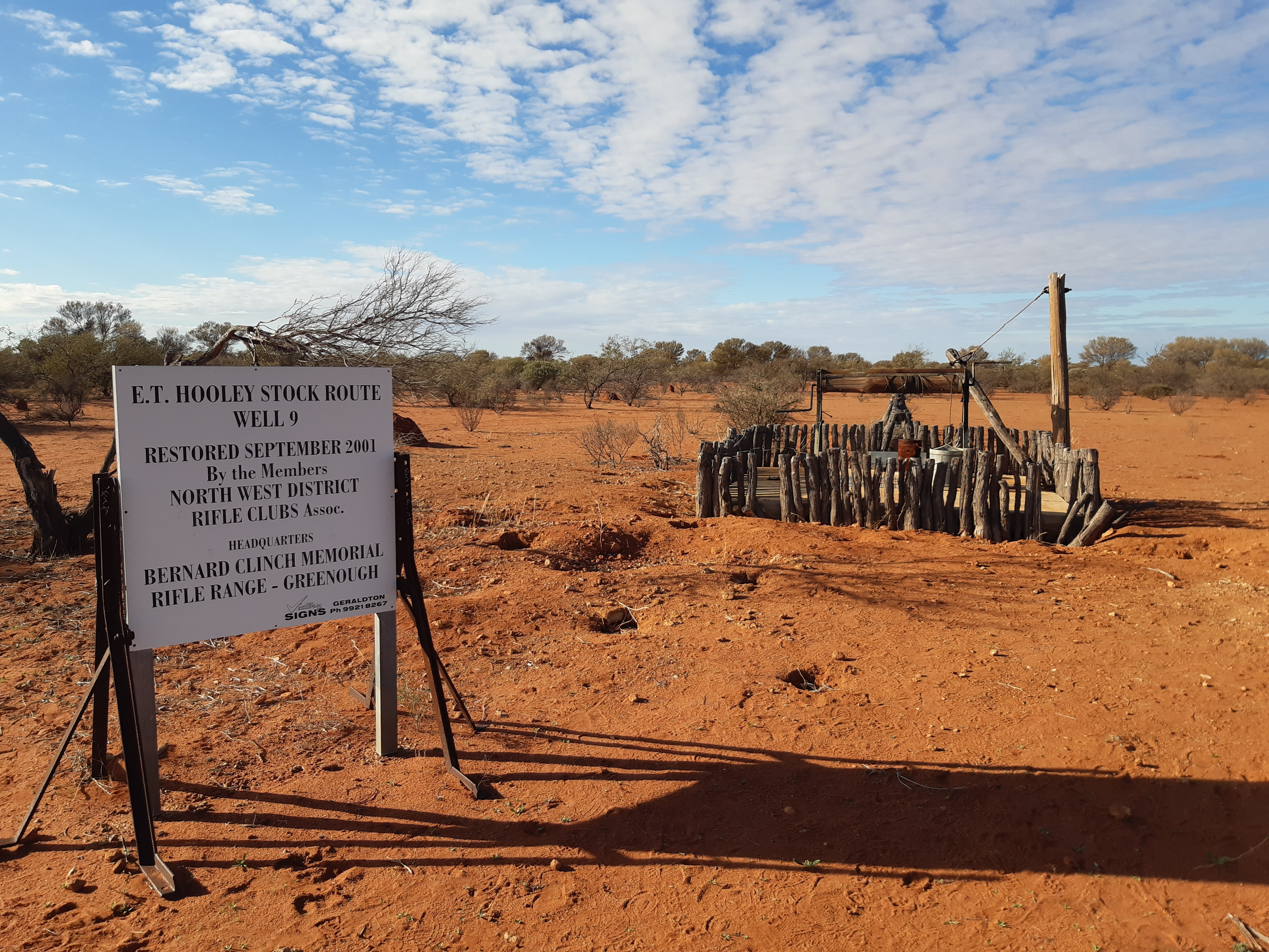 E. T. Hooley Stock Route Well No. 9, Shire of Murchison, Western Australia.